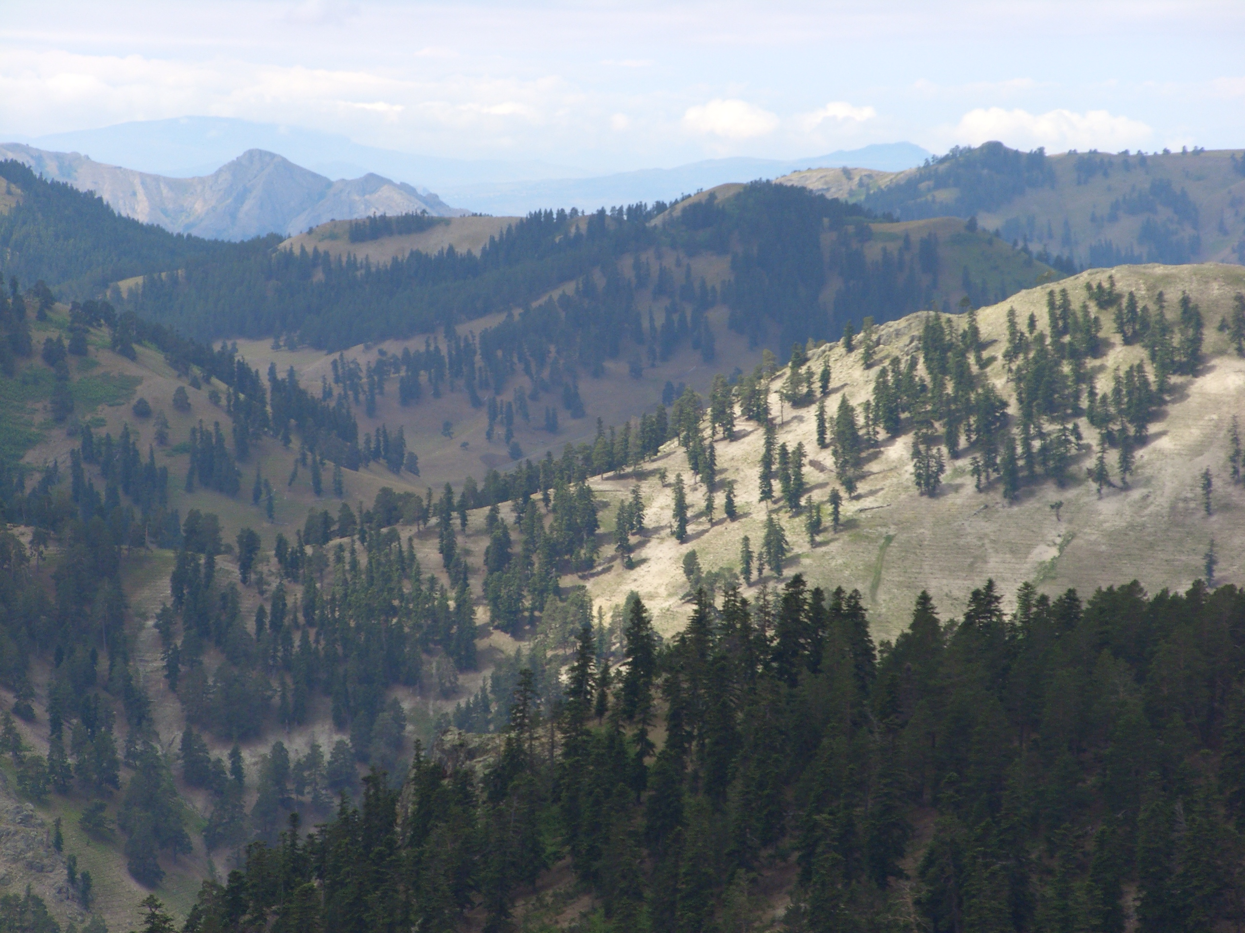 Abies_nordmanniana ("Doğu Karadeniz Göknarı" in Turkish). This photo was taken in Kurtbeli-Çekümbeli in Alucra district of Giresun Province, located in Black Sea Region of Turkey.